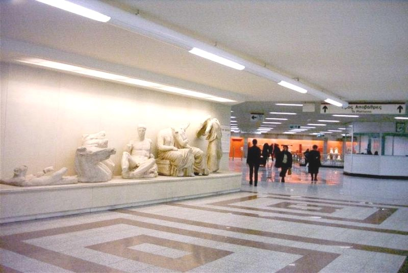 Syntagma Square station in Athens Metro, Athens,Greece. Photo taken 2006.